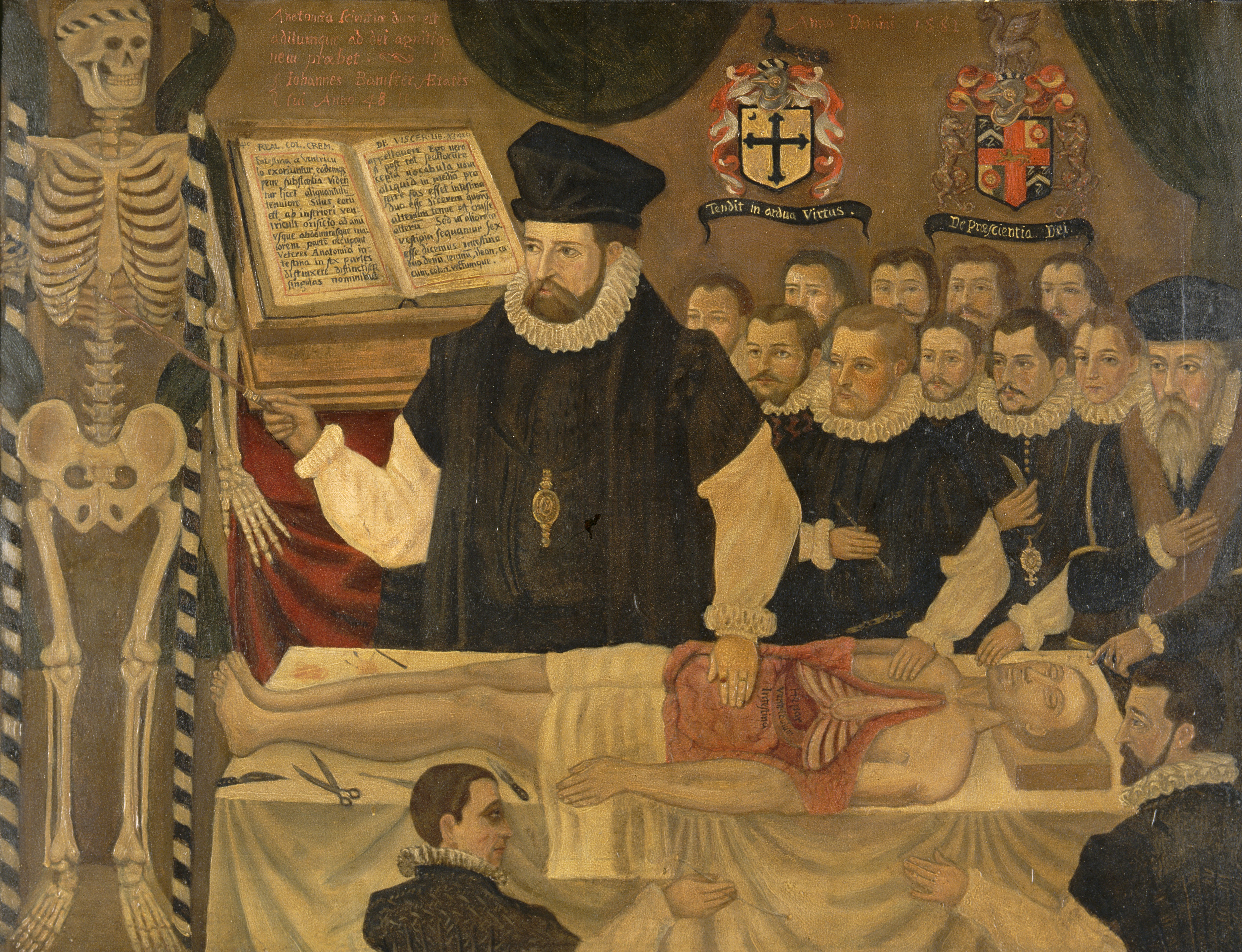 John Banister (anatomist) giving the visceral lecture at Barber-Surgeons' Hall, London, in 1581. Oil painting by Jack Orr after an English painter. Iconographic Collections Keywords: Jack Orr